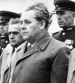 Paul Merker (1949)